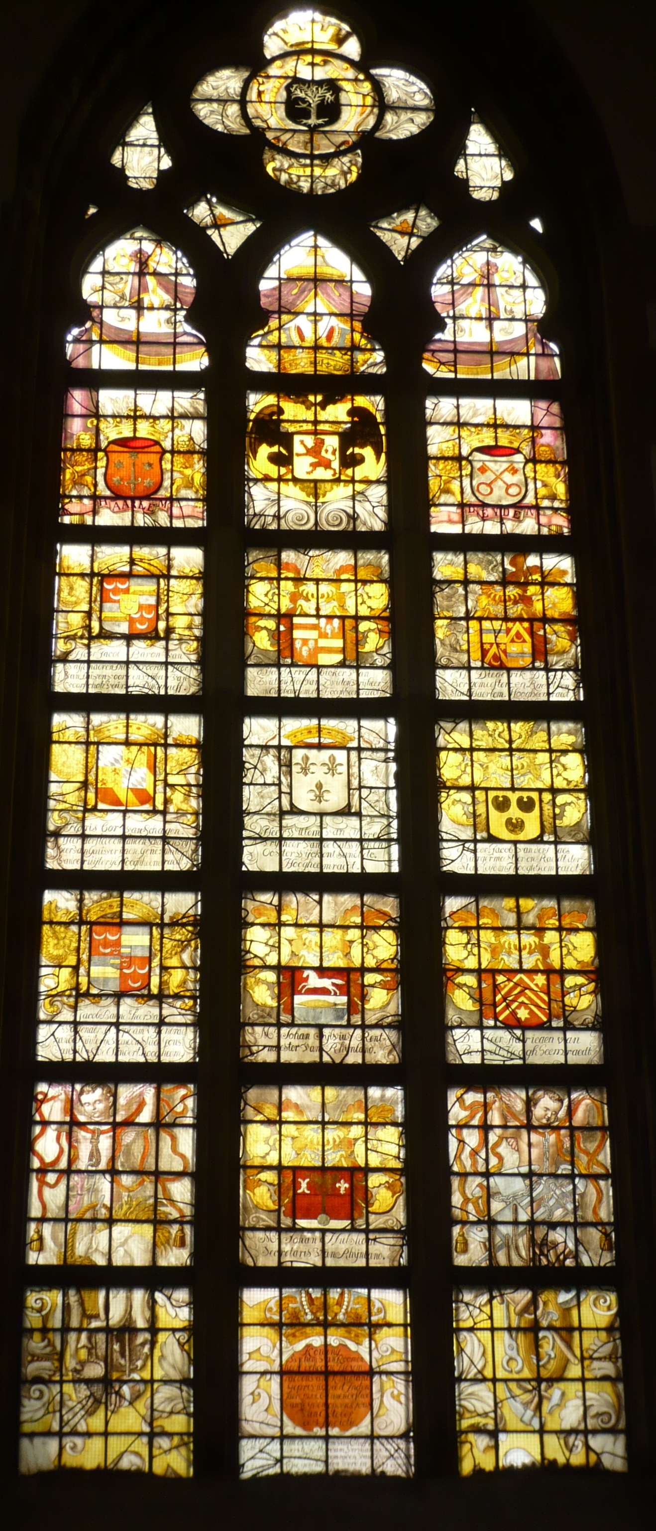 Stained glass window on South side, Grote Kerk, Haarlem. This is also known as the "Rynland" window, because it shows the heraldic shields of the Hoogheemraadscahp Rijnland. This window originally hung in a church in Lisse, where it was donated in 1691. It was bought in 1874 by Johan Enschede, and after restauration, placed in its current position.